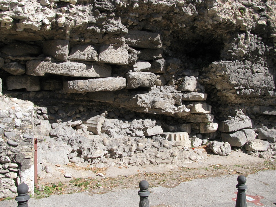 foot part of Roman city wall, around Die town - France